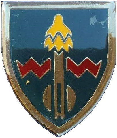 SADF 19 Rocket Regiment shoulder flash